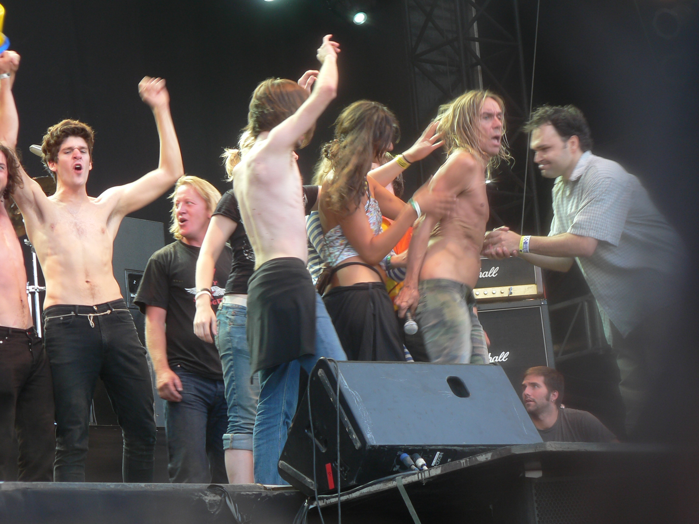 Live on the 15th of August, 2006. Sziget Fesztivál, Budapest, Hungary. Iggy and the Stooges. ©© Derzsi Elekes Andor, Budapest, 2014, Published in the Metapolisz DVD line. You are authorised to use this photo under Creative Commons – even for commercial, for profit purposes. The photo must be attributed to Derzsi Elekes Andor. All of the photos and vids in the Metapolisz DVD line are under Creative Commons and can be used even for commercial – for profit – purposes. Recommended Citation Derzsi Elekes Andor: Metapolisz DVD line